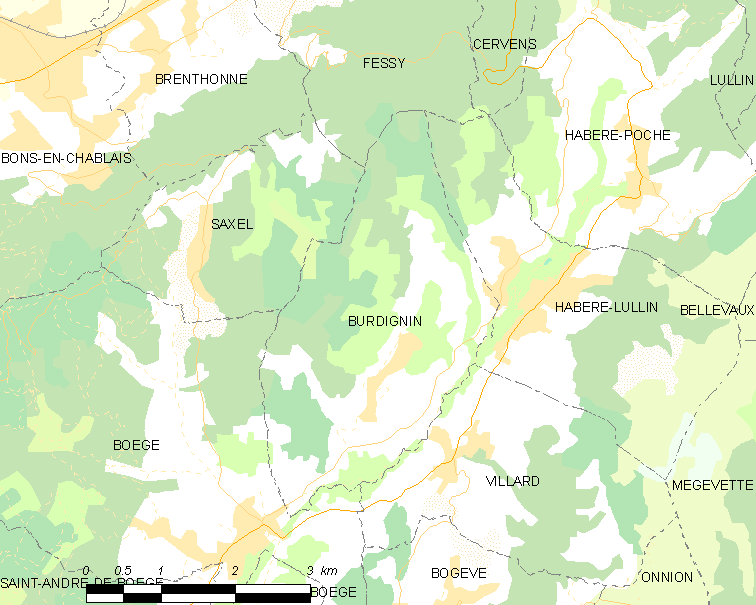 Map of French municipality Burdignin